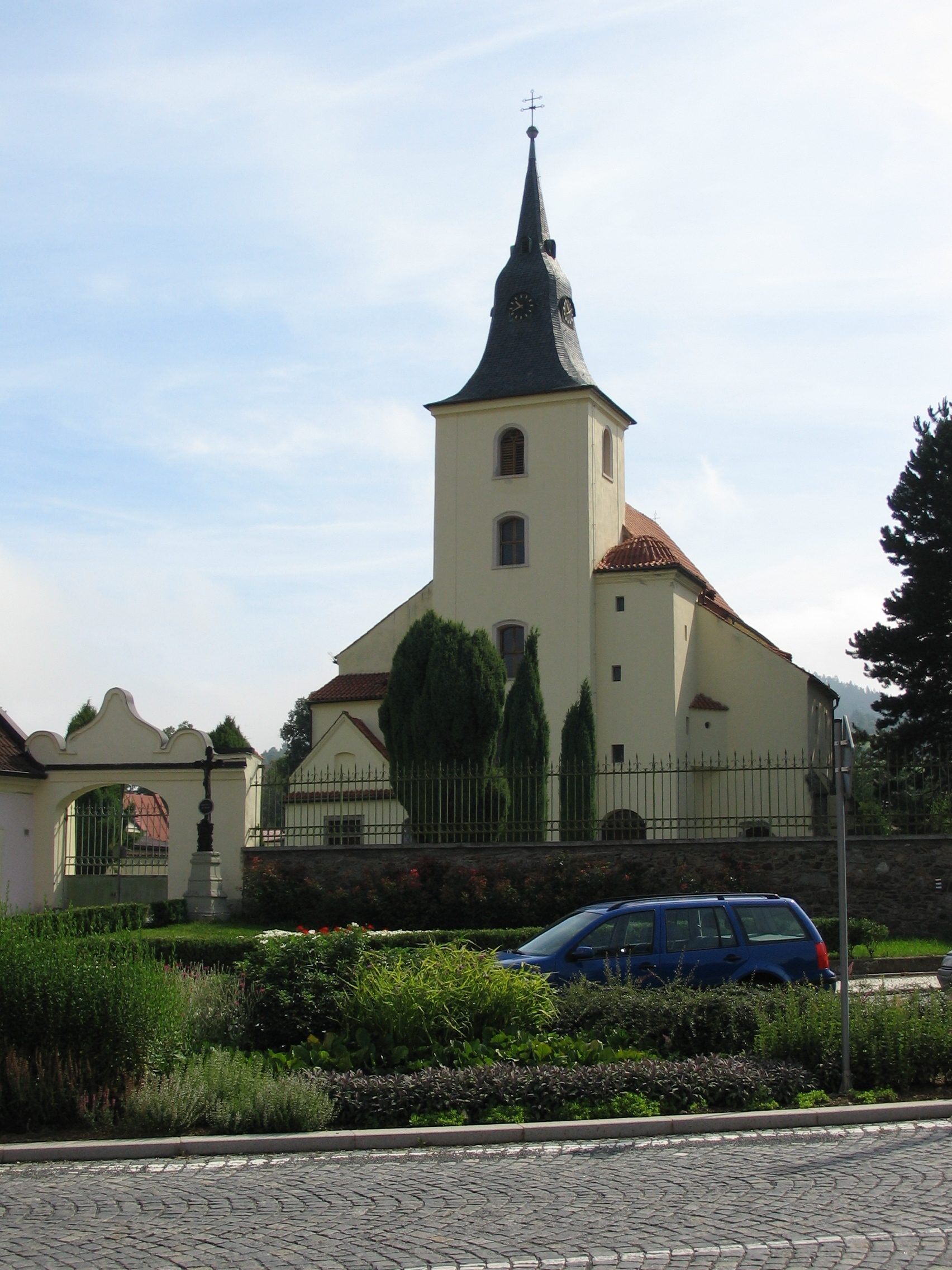 Saint Mary's church in Sušice, Plzeň Region, Czech Republic